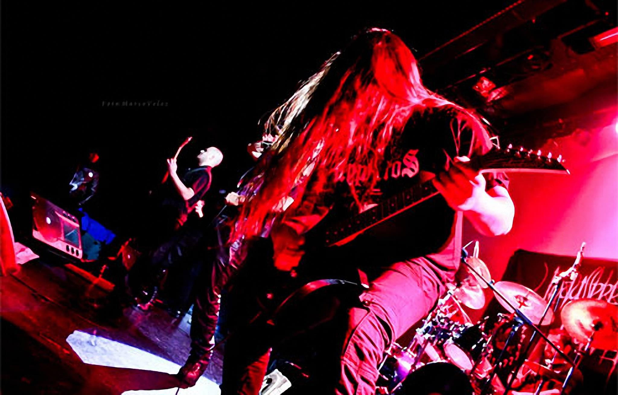 Photo by Marco Veloz